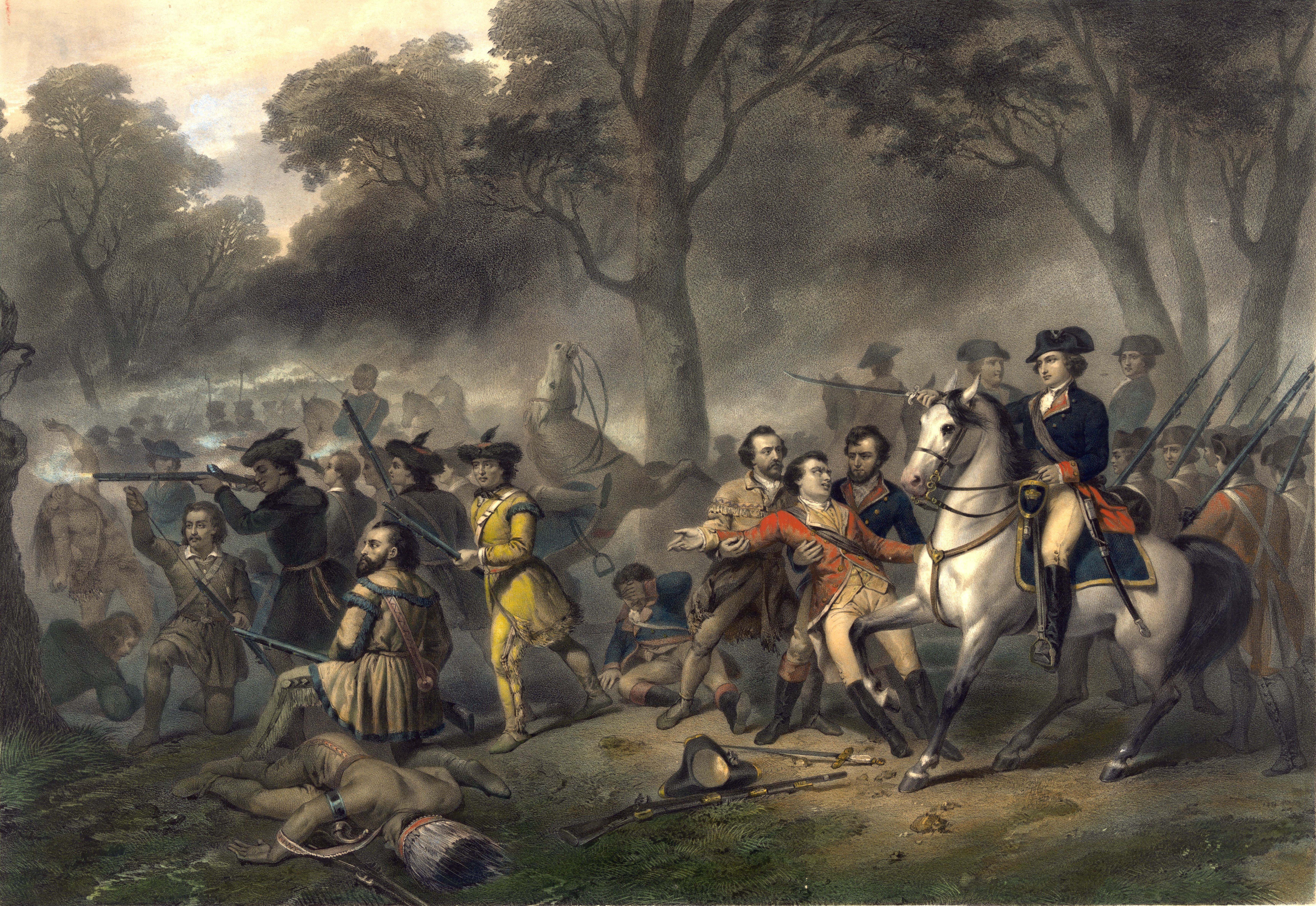 Painting in oil, Washington the Soldier